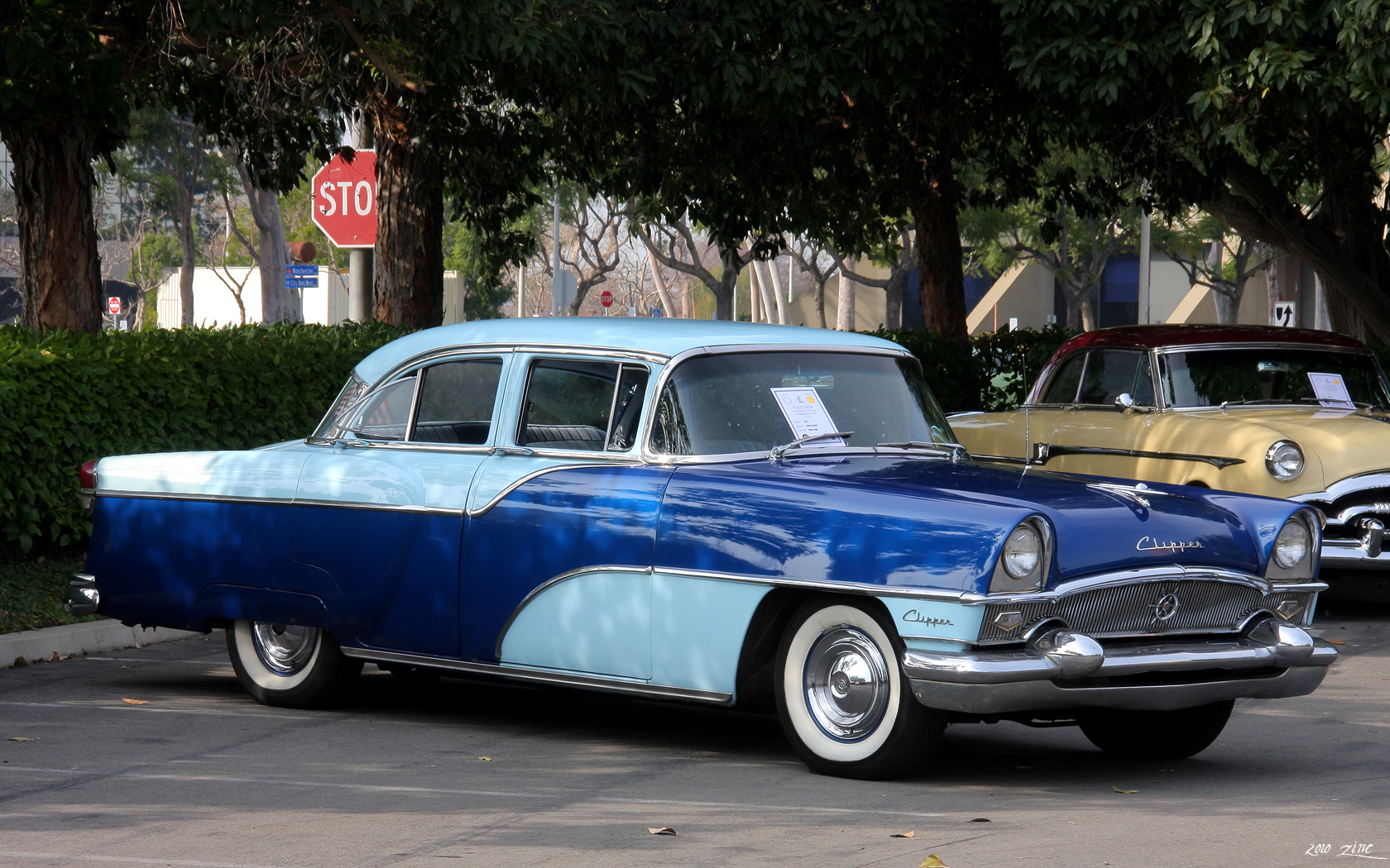 Packard Clipper Custom Touring Sedan model 5562 (1955) in Zircon & Ultramarine Metallic at a Packard club meet at the Double Tree Hotel, Orange, CA, Jan 29, 2010